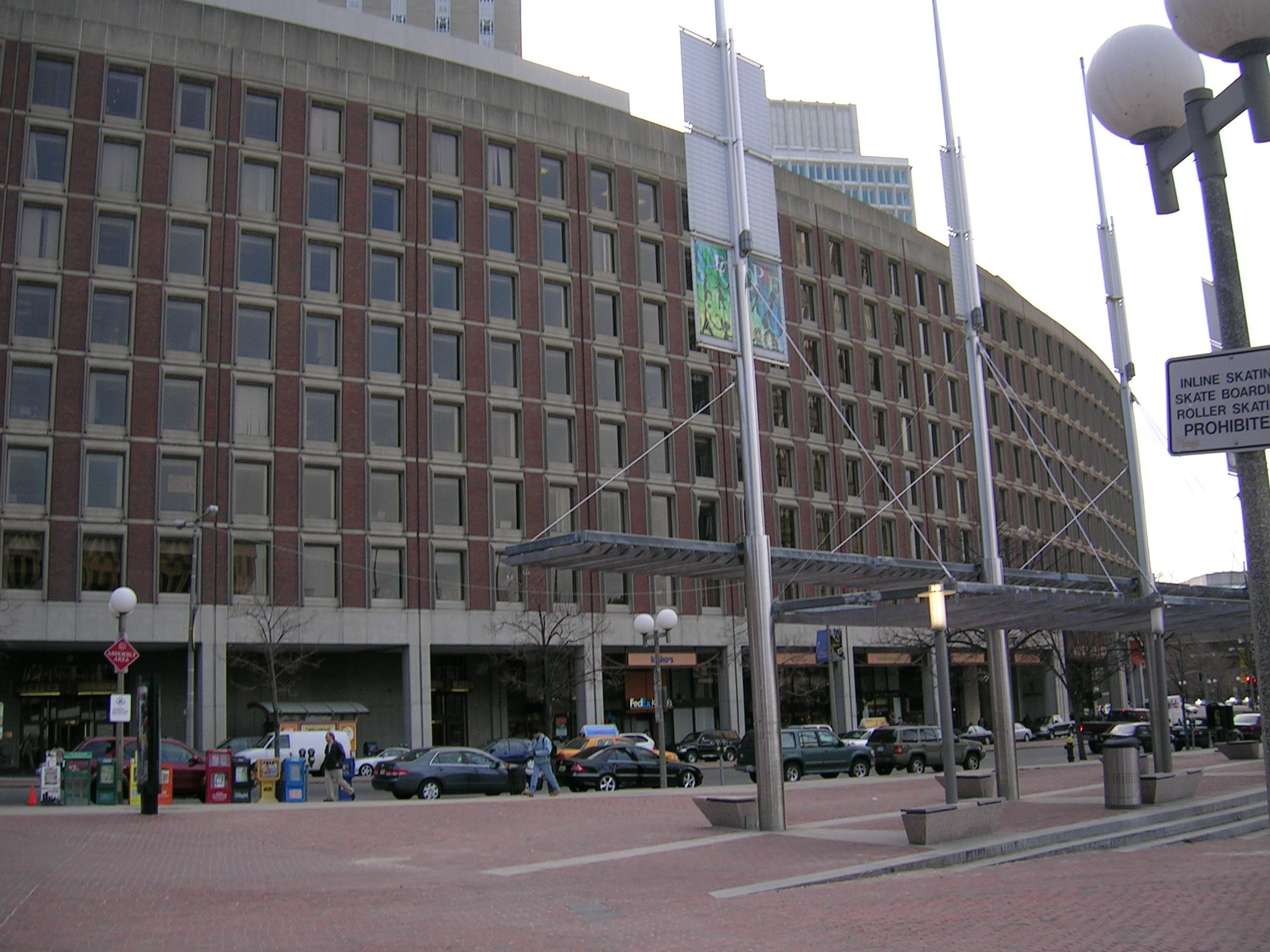 Government Center right outside the T stop.